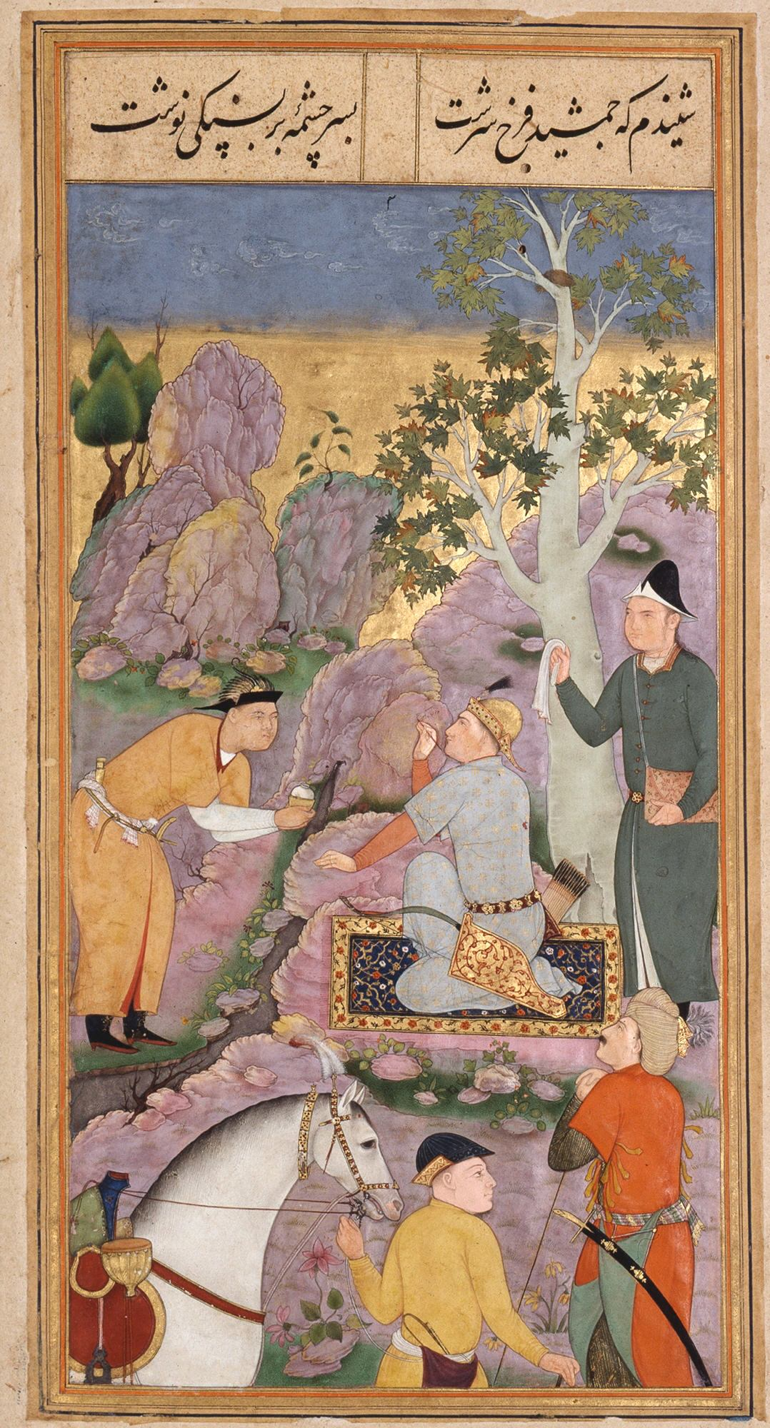 Attributed to 'Abid. The Inscription of Jamshid. Page from a Bustan of Sa'di. Manuscript dated 1605-6, Smithsonian Institution, Washington DC